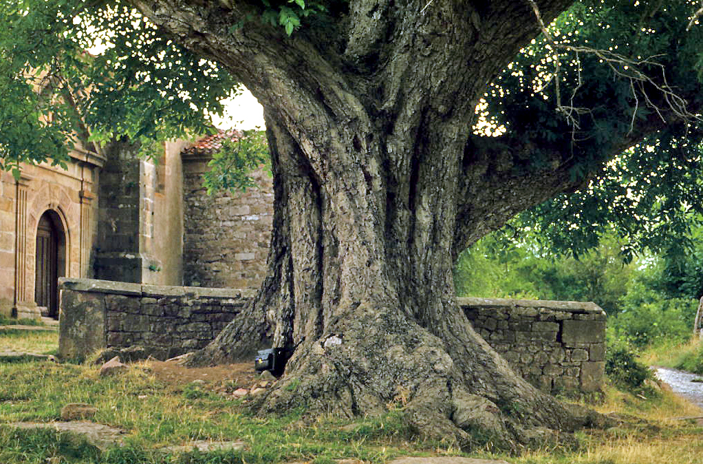 Old walnut tree [Juglans regia] known as "The Grandfather", at Hoz de Abiada. Hermandad de Campóo de Suso Cantabria, Spain